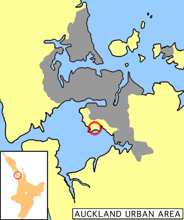 Location map of Auckland International Airport, New Zealand